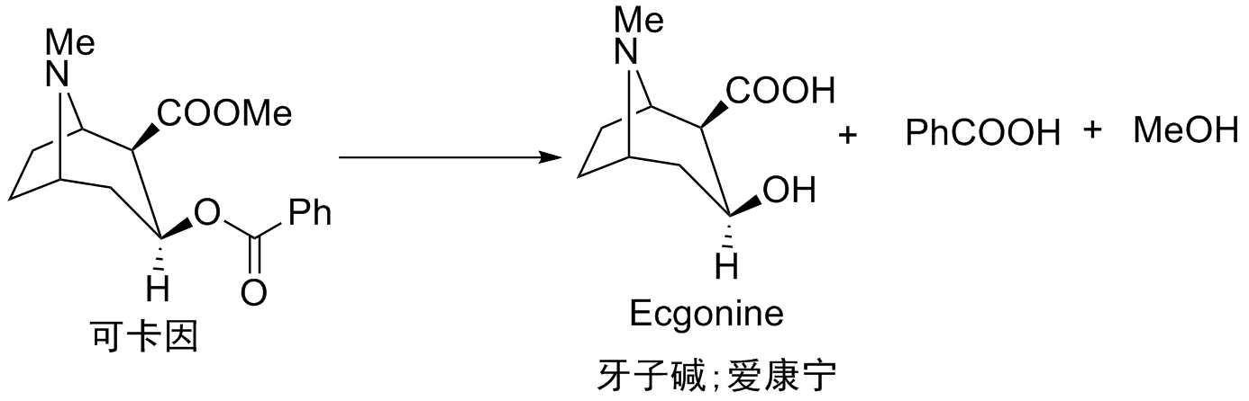 The equation of cocaine's hydrolysis